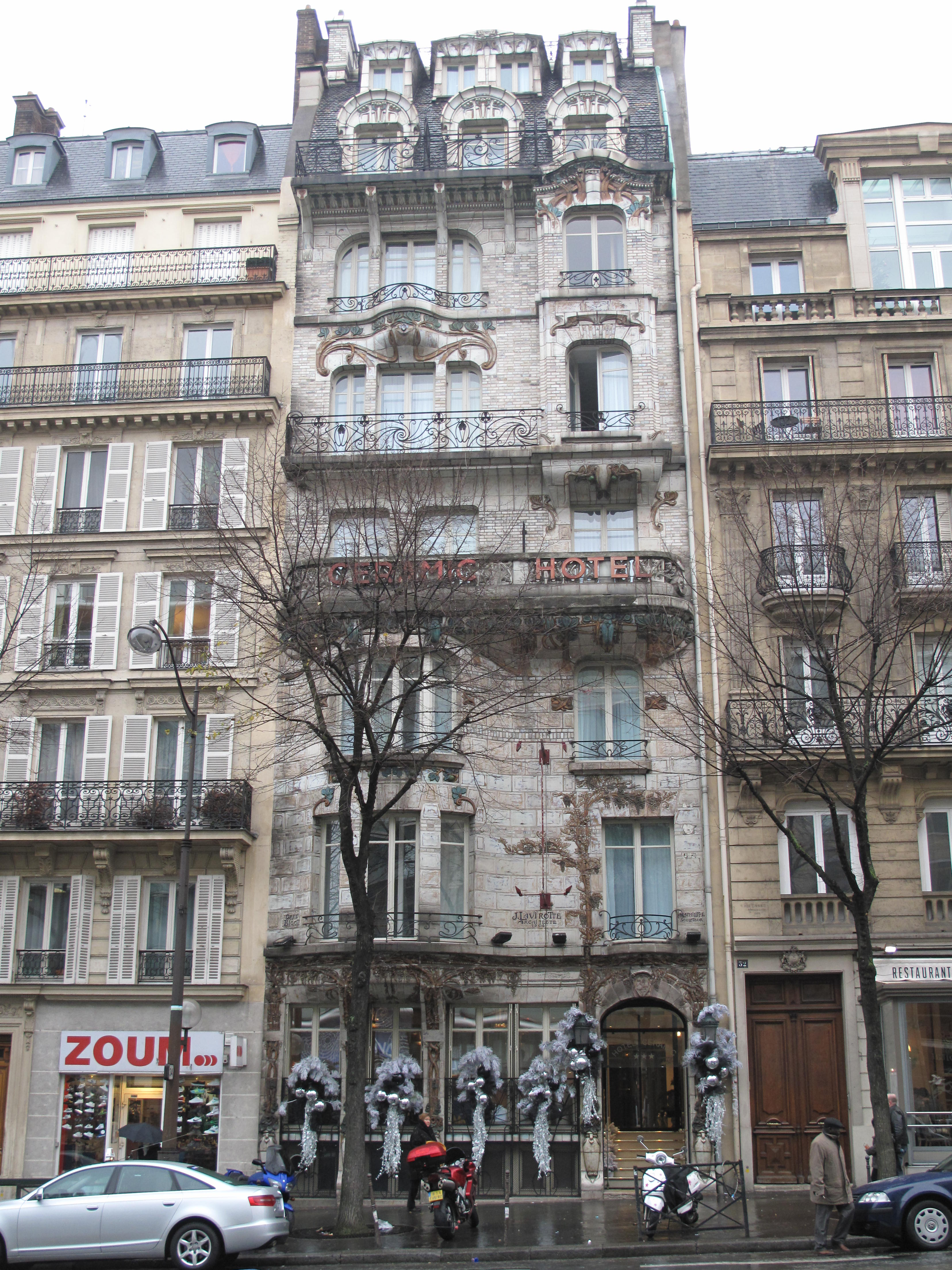 Facade of the Ceramic hotel, 34 avenue de Wagram, Paris 8th arr.